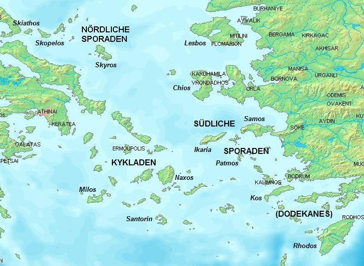 Sporades, Greece